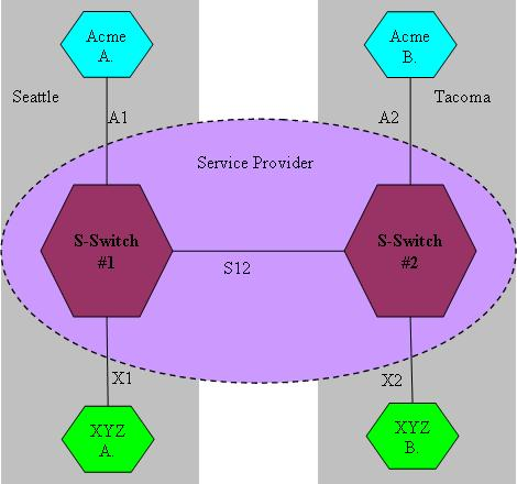 A crude example of the usefulness of 802.1QnQ. A Service Provide (SP) is shown connecting two customers' ("Acme" and "XYZ") networks in a sort of L2 VPN. The customers run multiple VLAN's (single tagged traffic) into the SP switches; the SP switches send QinQ encapsulated traffic to one another; each customer has his own outer tag VLAN id, to segregate traffic.